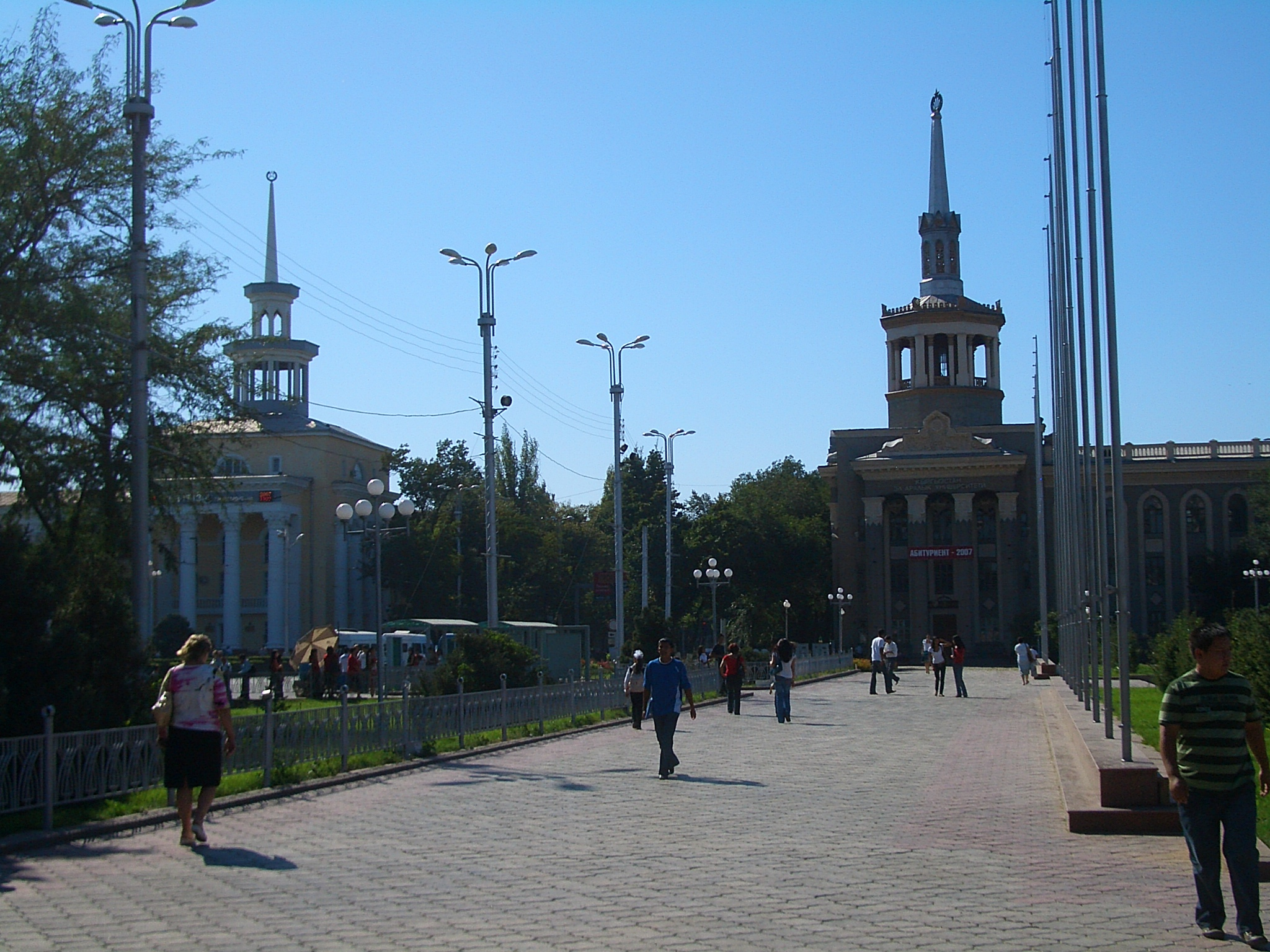 Chuy Ave in Bishkek. Looking west from the square near the Philharmonic.